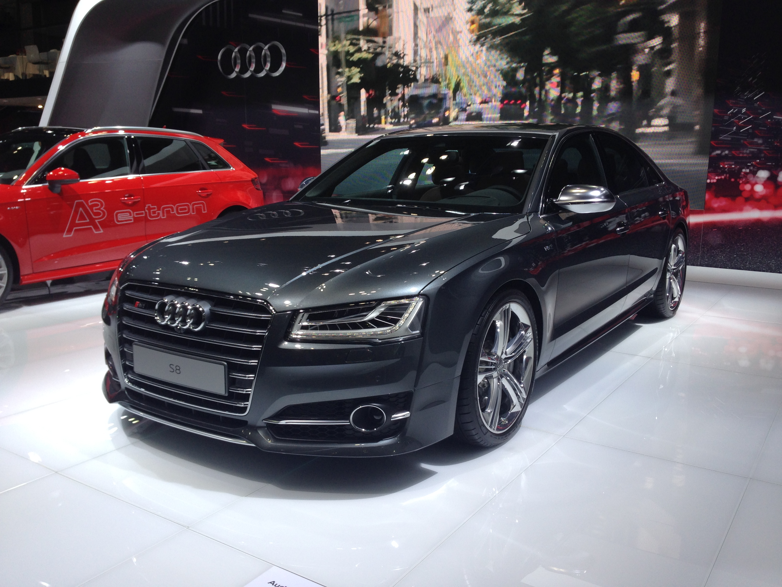 Audi S8 photographed at the Tokyo Motor Show 2013.